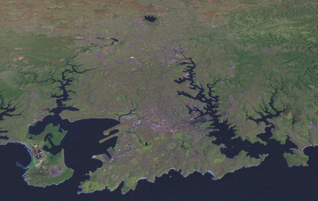 Sydney, Australia